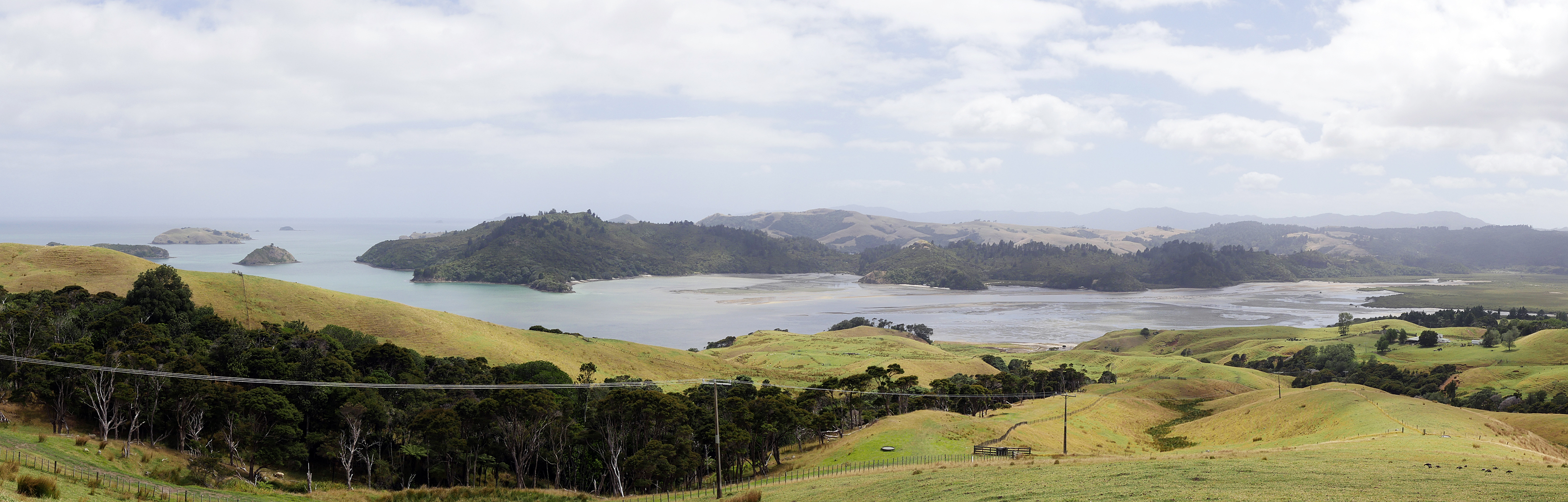 Manaia Harbour, Coromandel Peninsula, Thames-Coromandel District, Waikato Region, North Island, New Zealand